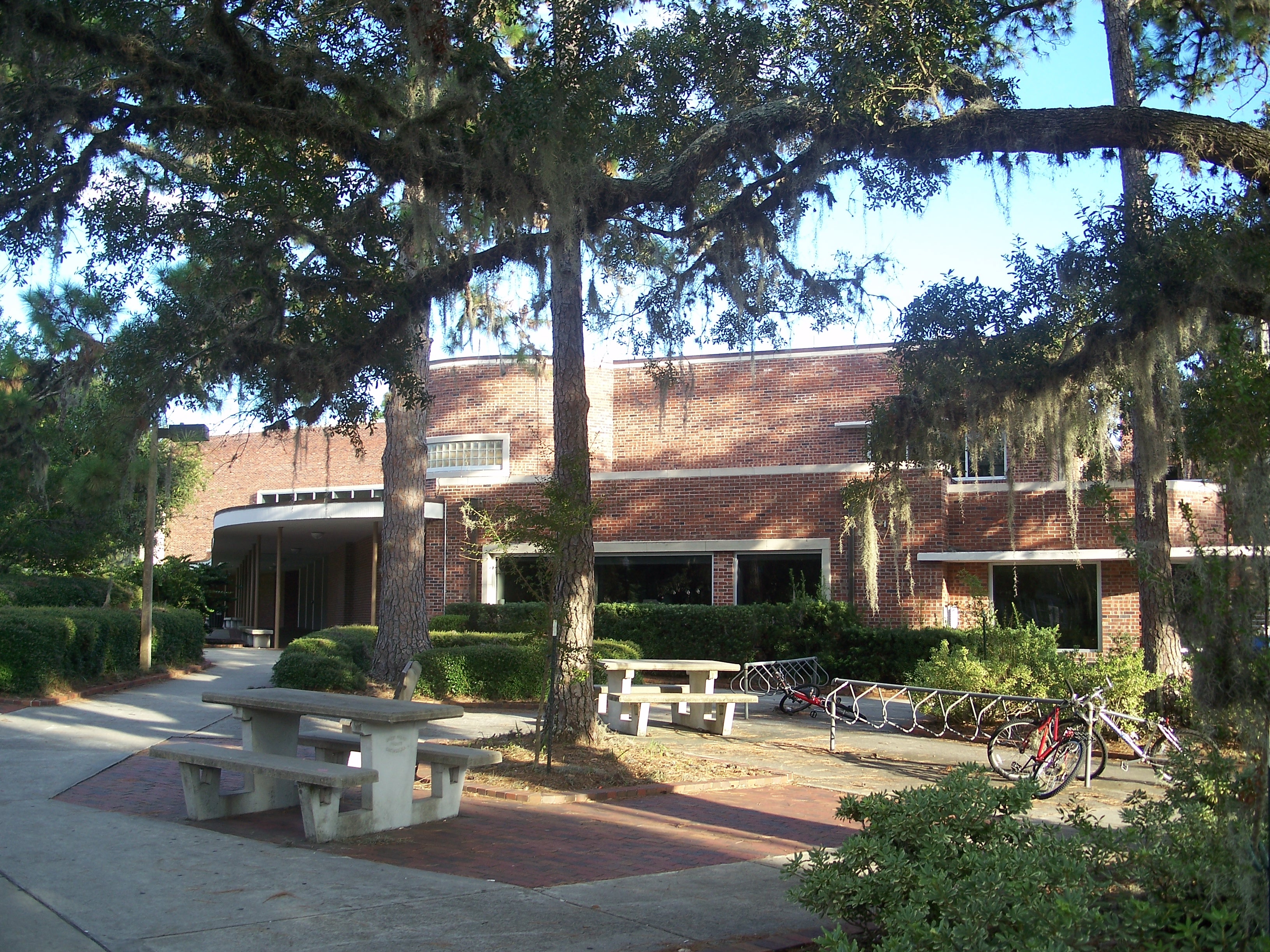 Gainesville, Florida: University of Florida: The Hub, also known as the UF Bookstore.